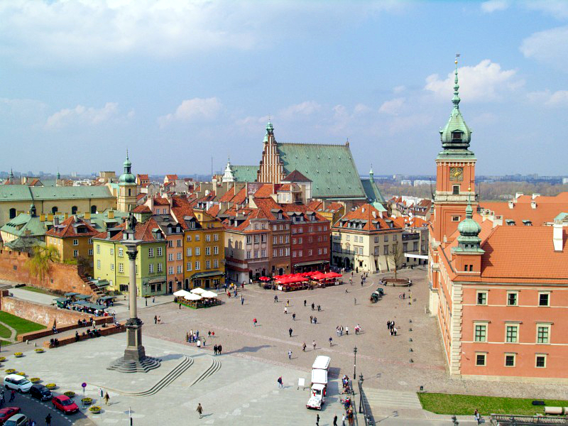 Castle Square and the Royal Castle, Warsaw / Warsawa